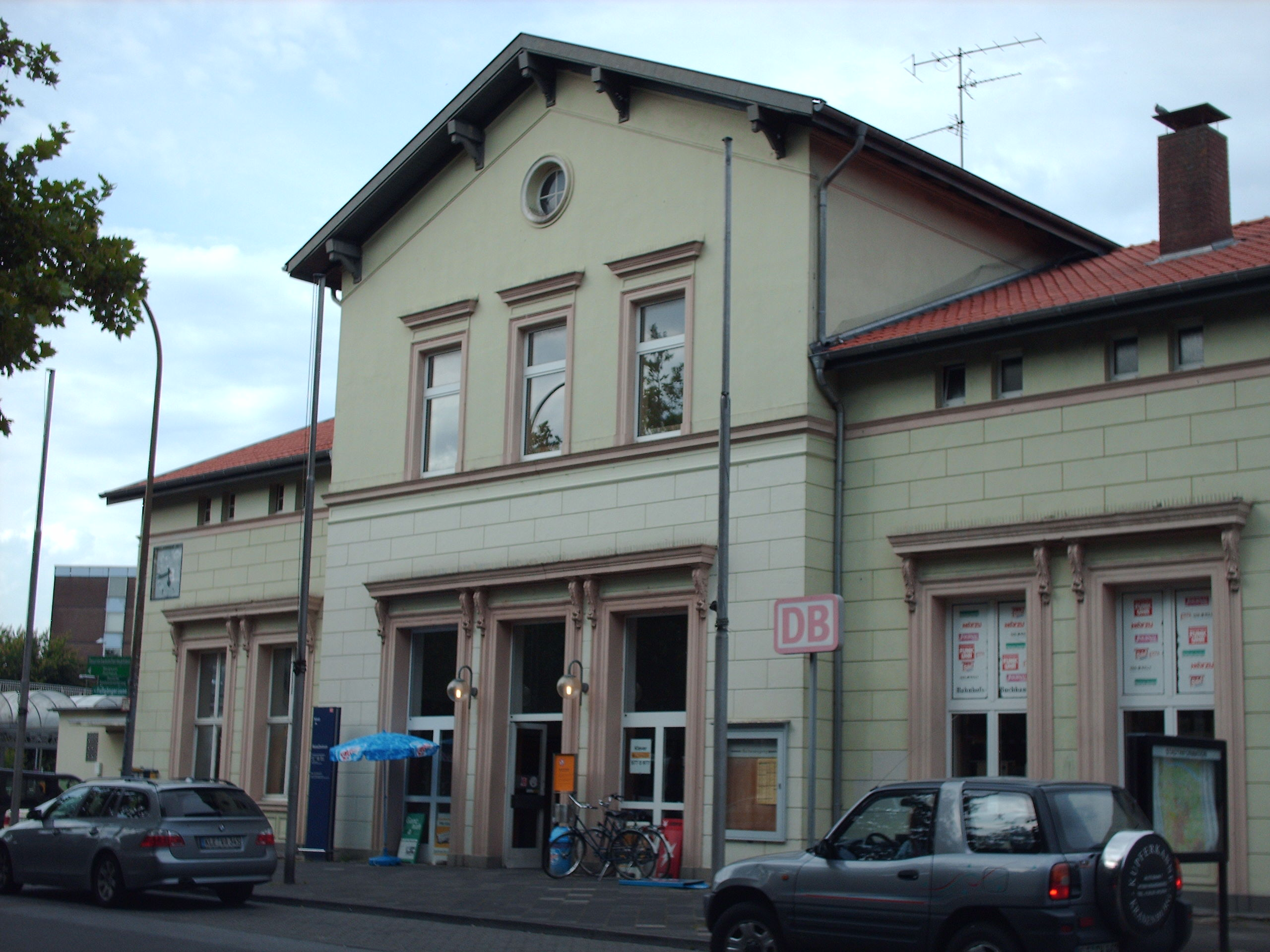 Kleve station, Kleve, Germany check usage